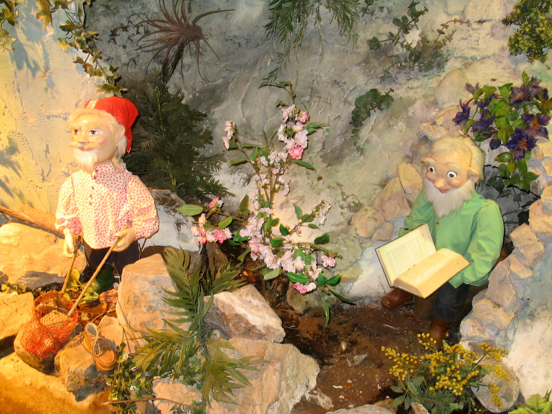 Fairy tale midgets in Sprookjeswonderland.